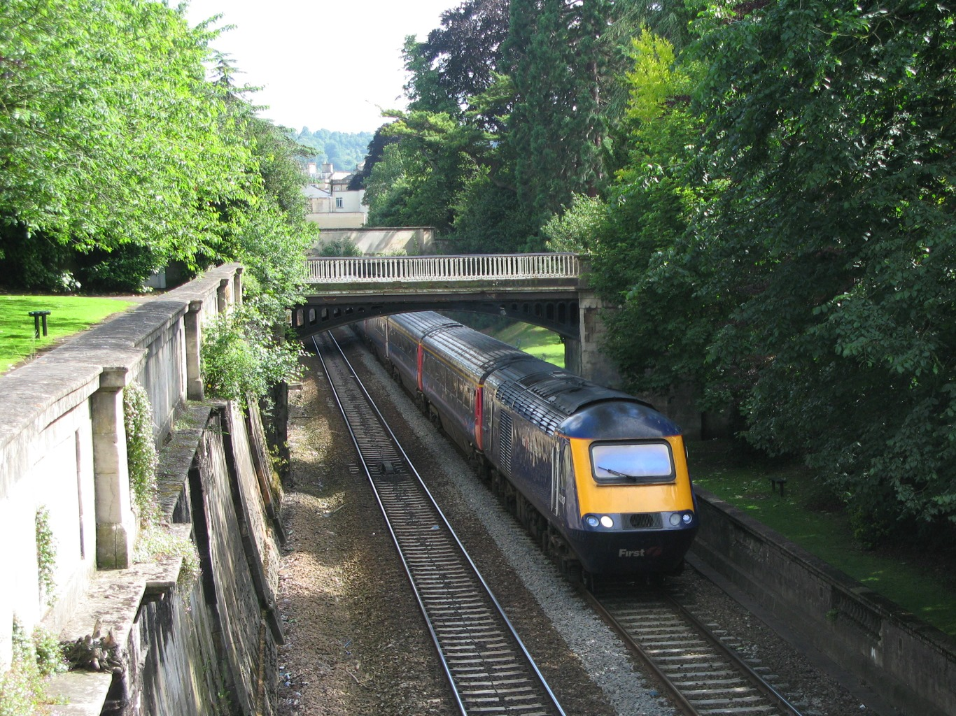 Power car 43030 leads a First Great Western service through Sydney Gardens in Bath, Somerset, England, on its way to London Paddington.